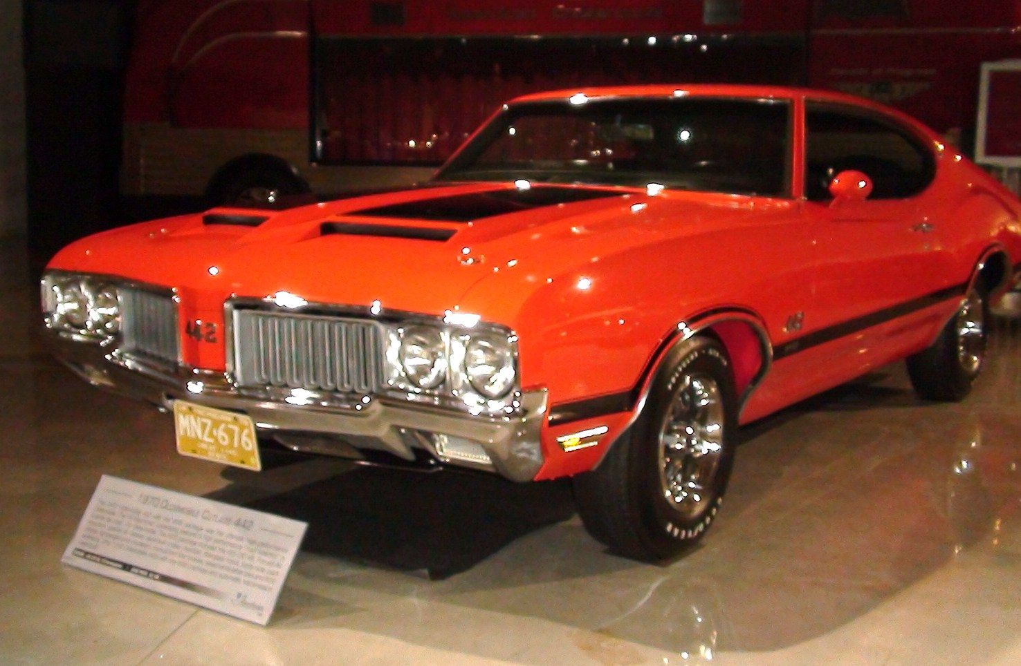 GM Heritage Center.